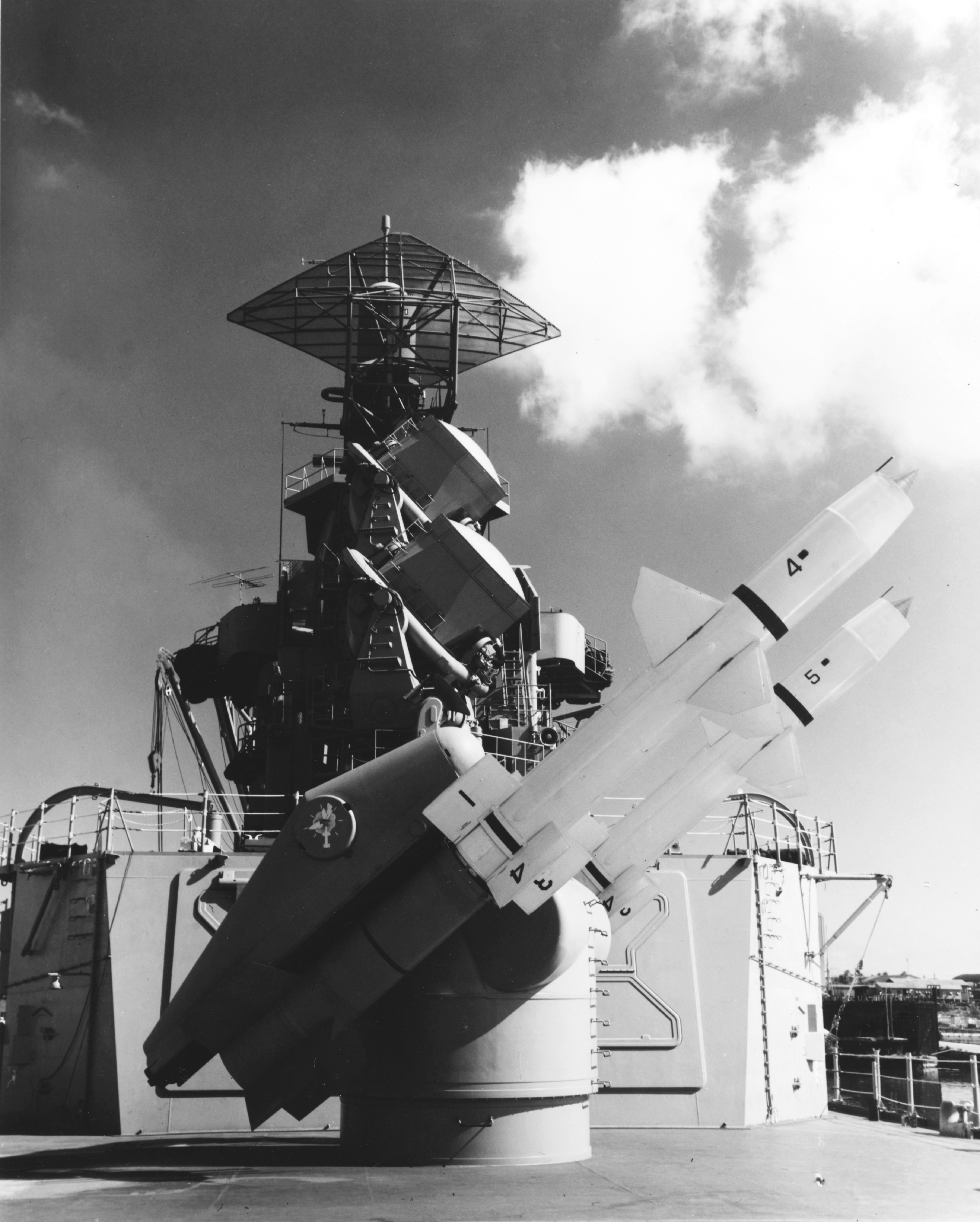 RIM-8 Talos missiles (then designated SAM-N-6) on the missile launcher of the U.S. Navy guided missile cruiser USS Little Rock (CLG-4), November 1960. Note the insignia on the launcher, depicting a missile hitting an airplane, SPG-49 missile guidance radars pointed in the same direction as the launcher, and the large diamond-shaped antenna for the ship's SPS-2 radar.